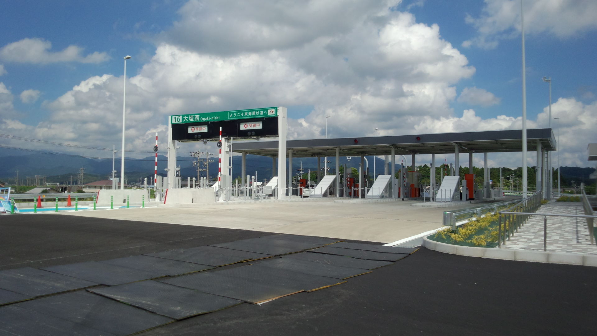 Ogaki-Nishi toll gate, taken in September 1, 2012